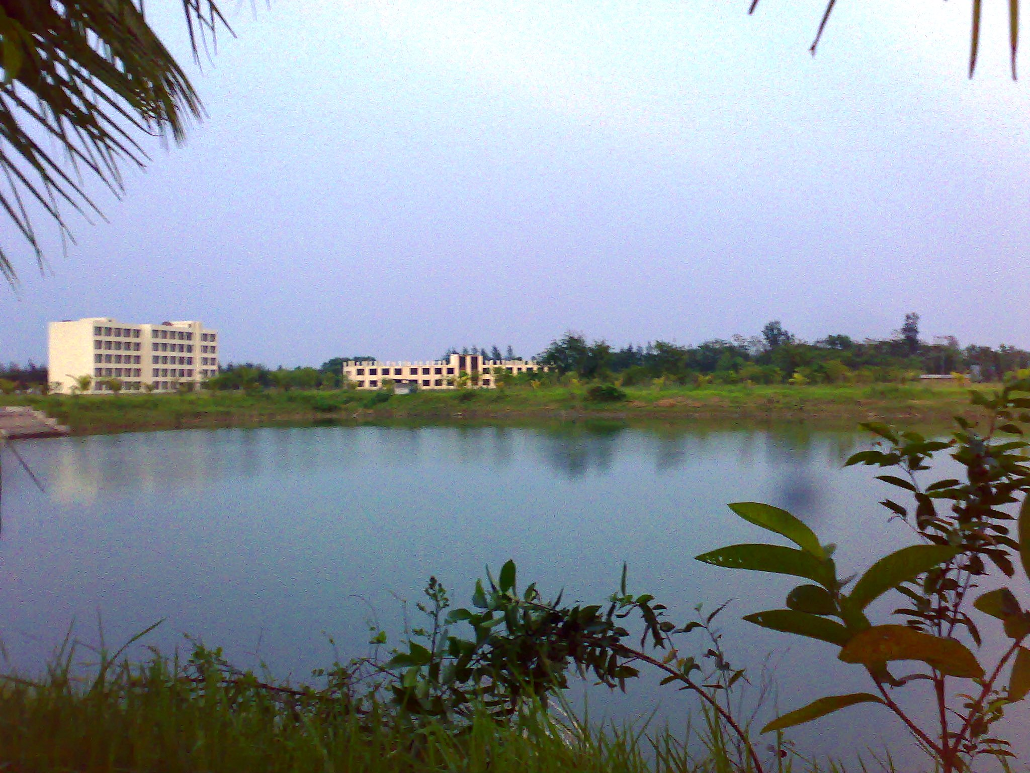 A view of Noakhali Science and Technology University(NSTU) from University's Lake(beside Moina dip).